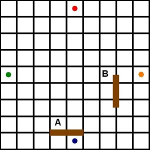 I Jeremy Tsistinas created this file for the specific intent of using it in the Wikipedia articler Quoridor.